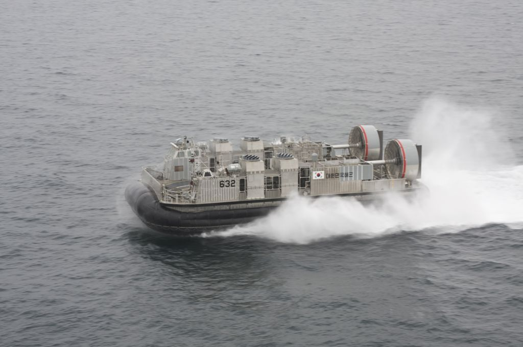 081107-N-2760T-092 A Republic of Korea (ROK) navy landing craft air cushion launched from the amphibious landing ship ROKS Dokdo (LPH 6111) passes by USS Harpers Ferry (LSD 49) after well deck training aboard Harpers Ferry Nov. 7, 2008, in Pohang, South Korea. Harpers Ferry is engaged in cross-deck training with Dokdo to enhance US Navy interoperability with the ROK Navy. (U.S. Navy Photo by Cmdr. Marvin E. Thompson/Released)